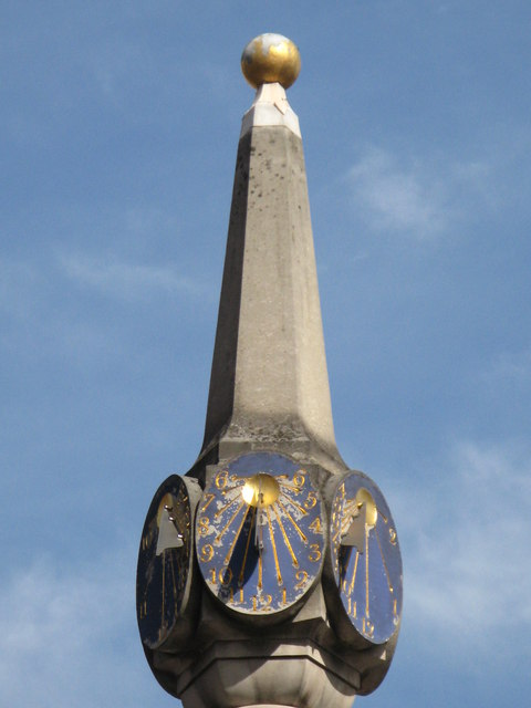 Three of the six sundials at Seven Dials, WC2. See 1295448.